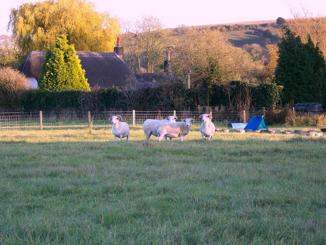 Sheep in Revels Field, Bishopstone The sheep are Wiltshire Horns.